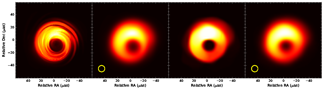 Figure 3. BSSpM reconstruction of a disk-jet model of M87 at 1.3 mm. (a) The original model [45]. (b) The model convolved with a 10 μas Gaussian. (c) The BSSpM reconstruction of the image from simulated data [44]. The fringe spacing of the longest baseline is approximately 25 μas. (d) The BSSpM reconstruction convolved with a 10 μas Gaussian. BSSpM successfully recovers features of the model at a superresolution of 40% of the fringe spacing.